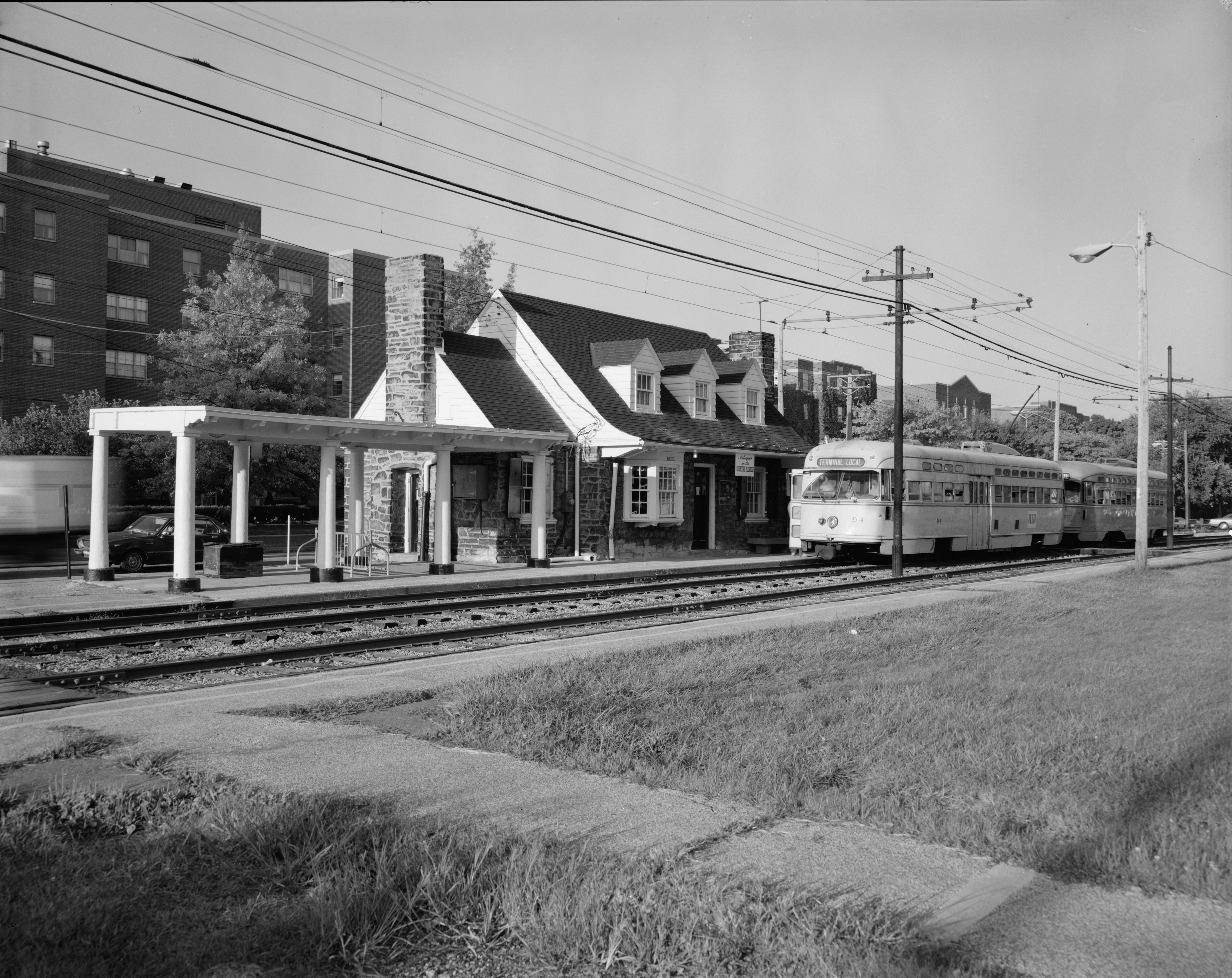 A PCC car on the Blue Line Rapid along Van Aken Boulevard at the Lynnfield station in Shaker Heights, Ohio Original caption: "General view of Lynnfield Station, Van Oken Line, Shaker Heights Rapid Transit. 1920's; now an antique store."